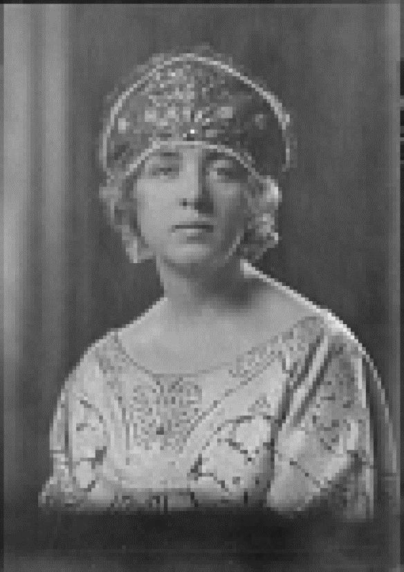 British sculptor Clare Sheridan